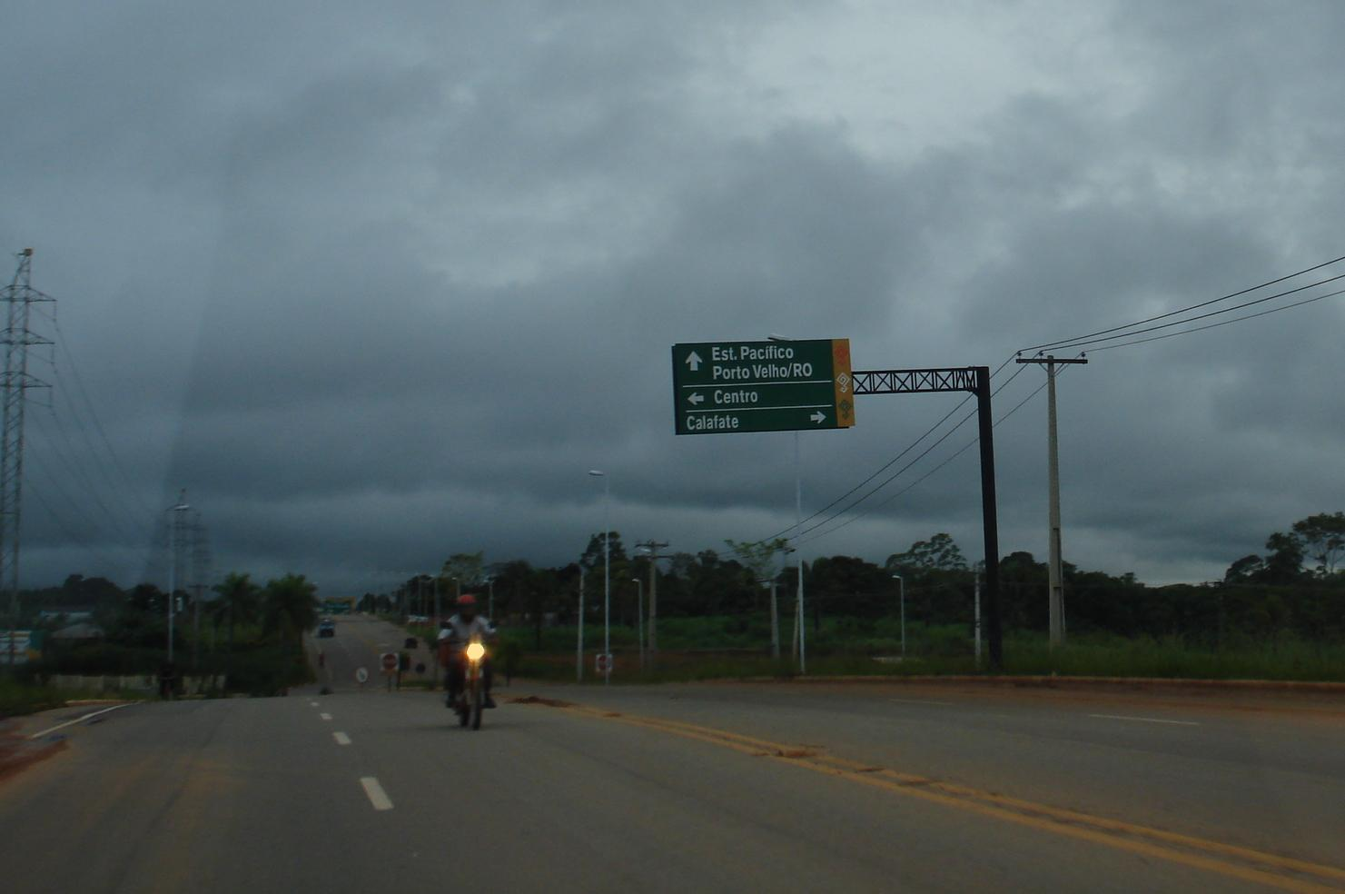 Brazil-Peru Pacific Highway - Ring road of Rio Branco (AC)